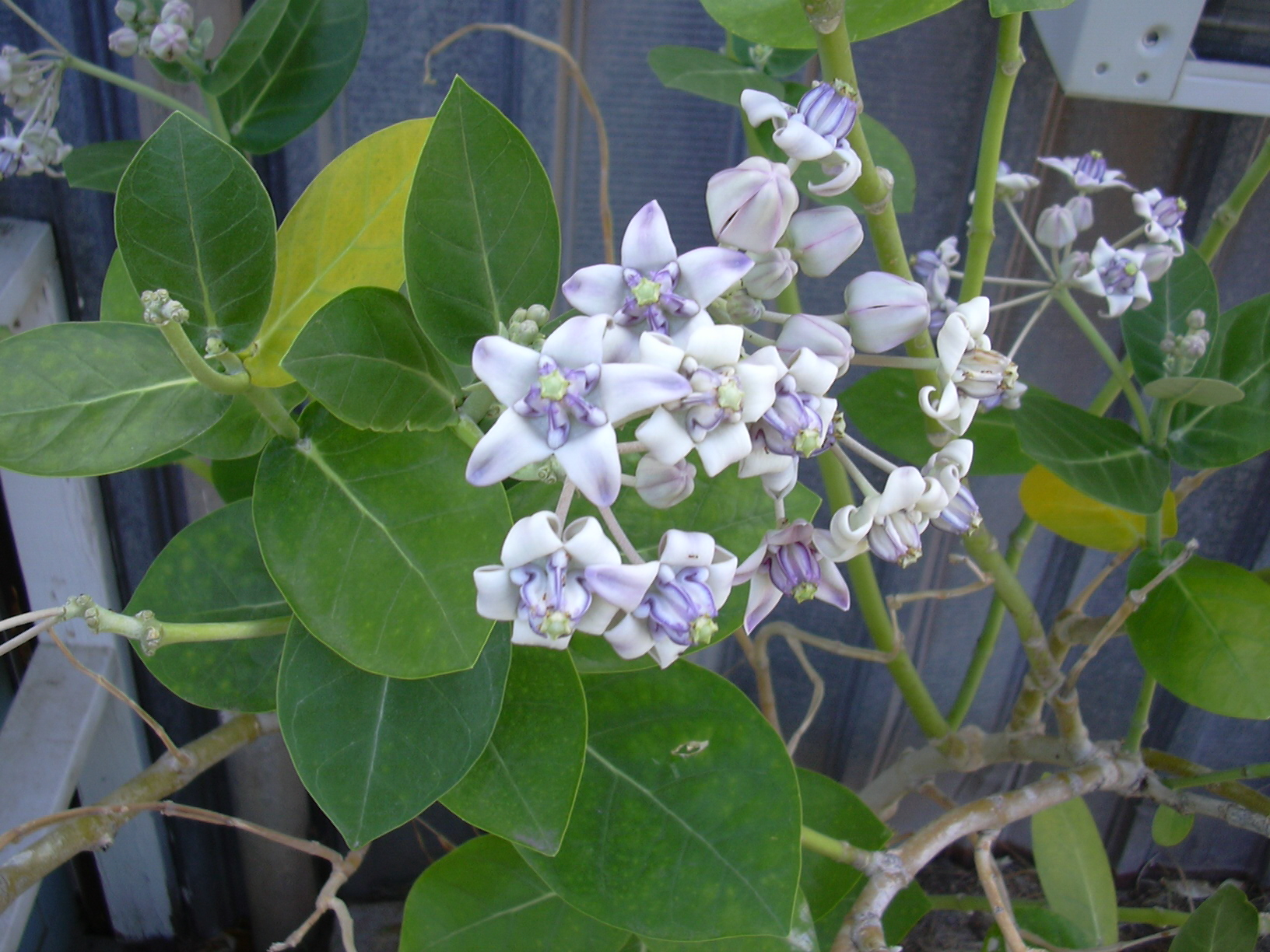 Calotropis gigantea (habit). Location: Kahoolawe, Honokanaia